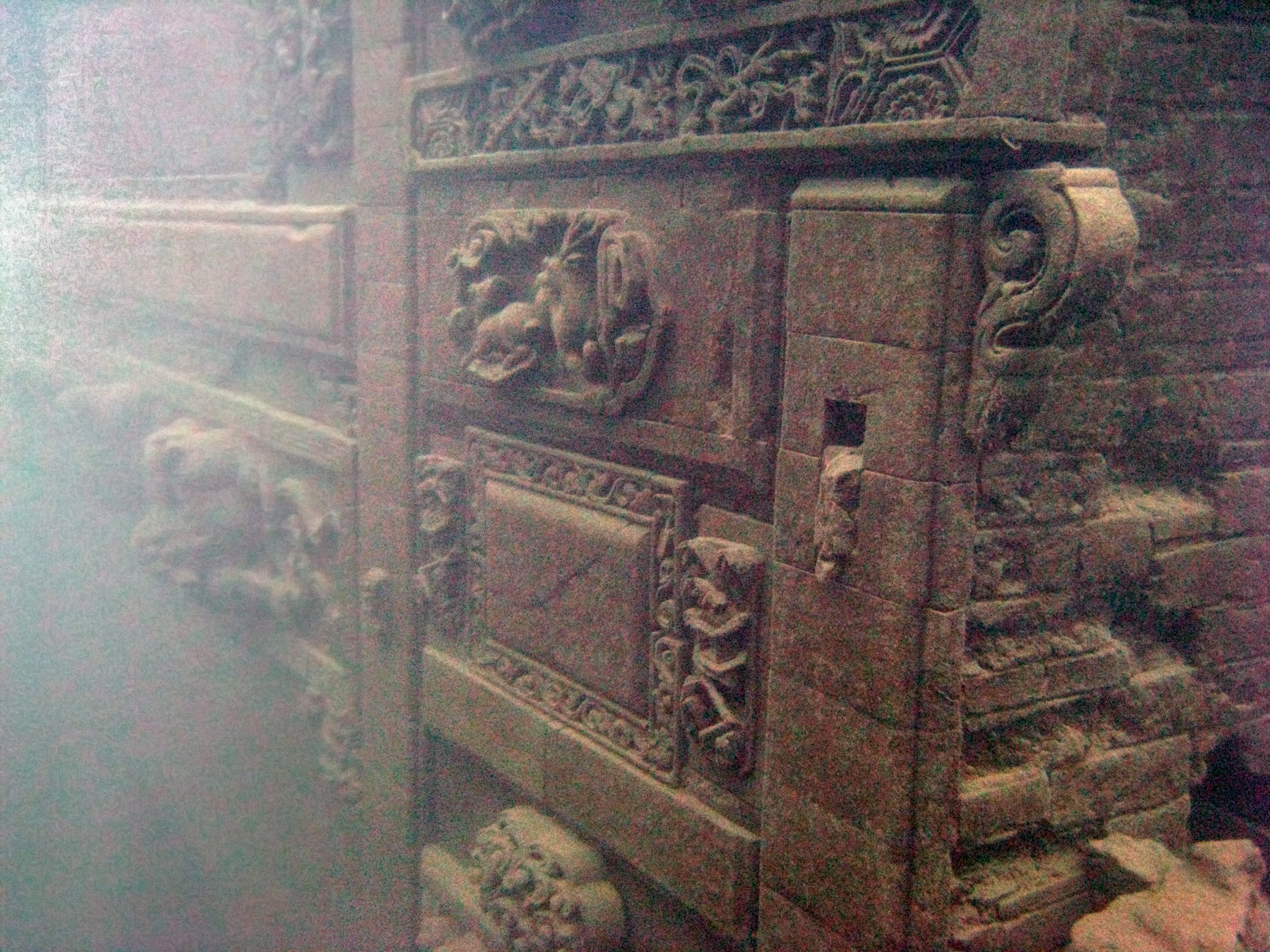 shi cheng - pai fang